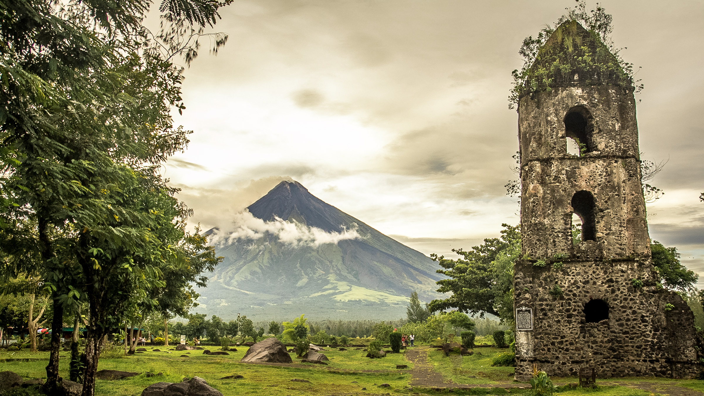 Located in the town of Daraga, Albay in the Philippines. The church of Cagsaua was built after 1734 by Francisco Blanco. The February 1, 1814 eruption of Mt. Mayon located 10km away (seen at the background) destroyed the church. Filipino: Matatagpuan sa bayan ng Daraga, Albay sa Pilipinas. Ang simbahan ng Cagsaua ay itinayo makaraan ng 1734 ni Francisco Blanco. Nasira ang simbahan sa pagsabog ng Bulkang Mayon (makikita sa likuran) na may layong 10km mula rito noong Pebrero 1, 1814.